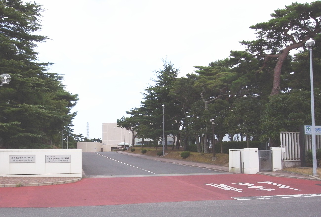 Japan Atomic Energy Agency. Tokai-mura, Ibaraki prefecture, Japan.